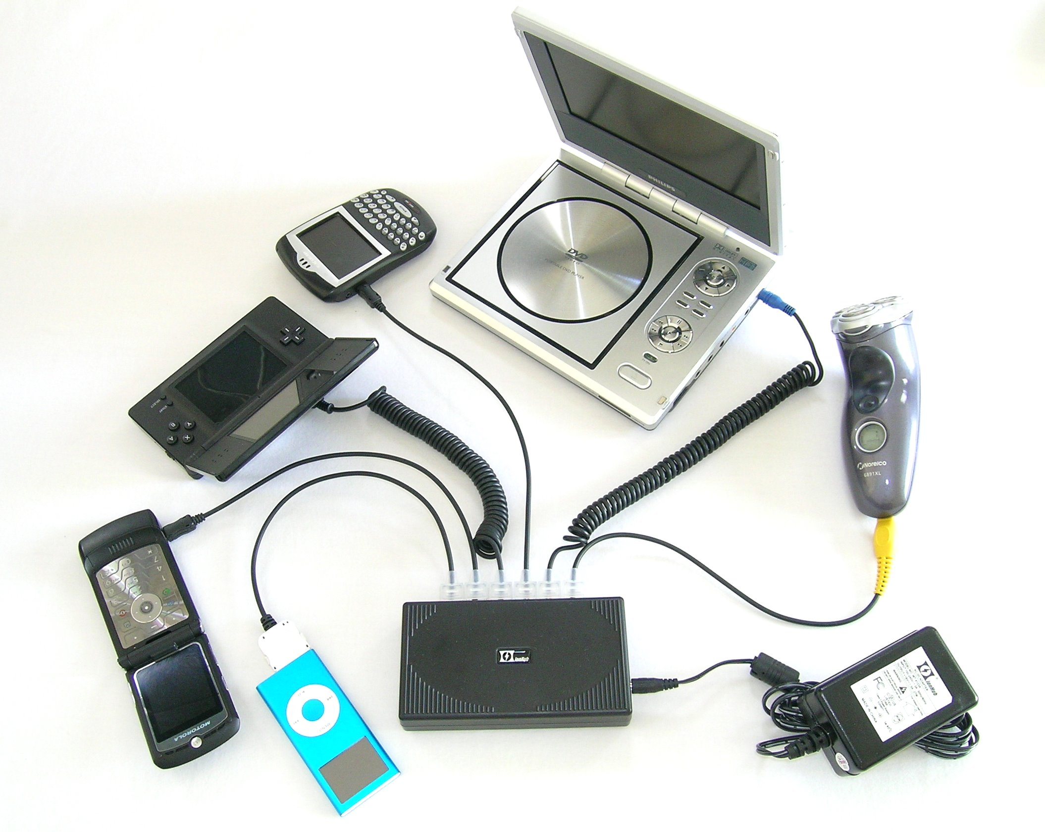 The Ionhub charger can simultaneously charge several electronic devices: iPod Nano, Razr, Nintendo DS Lite, BlackBerry, portable DVD player, and electric shaver.